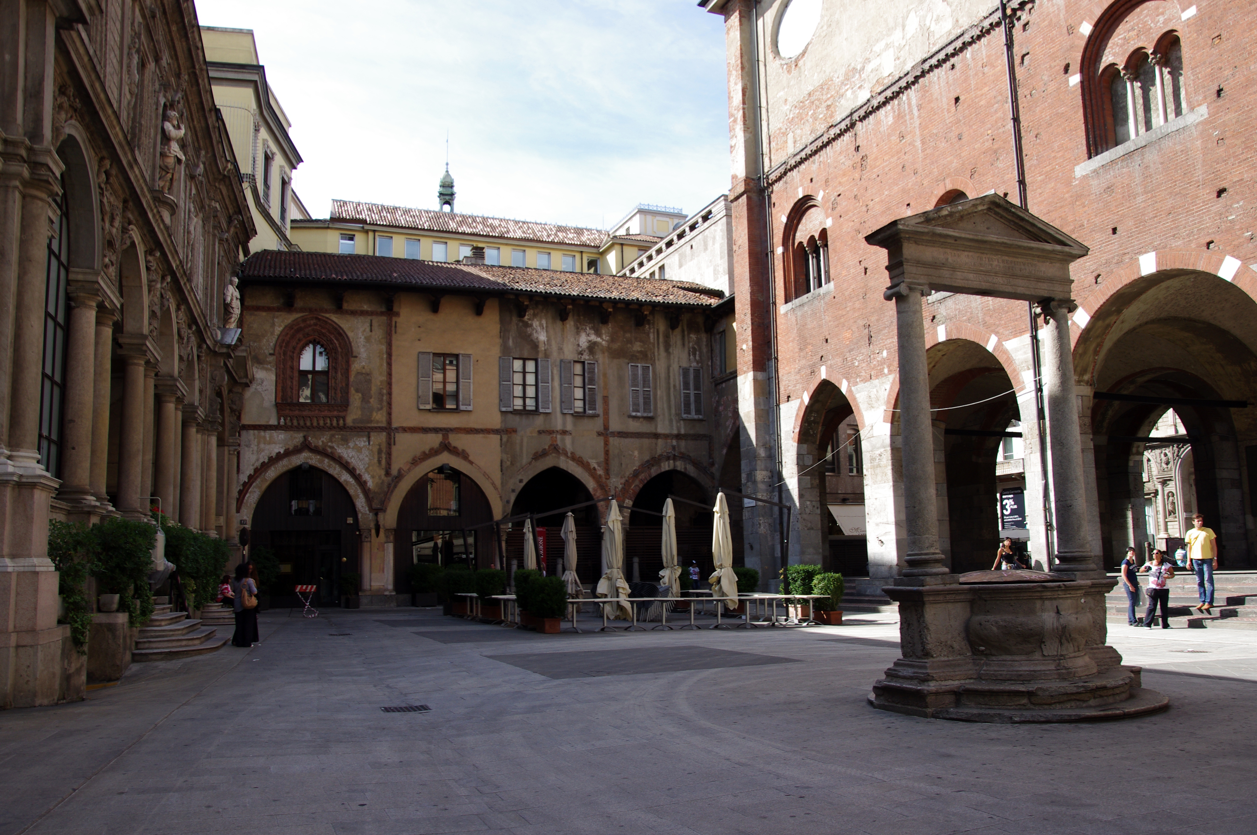 Piazza Mercanti in Milan